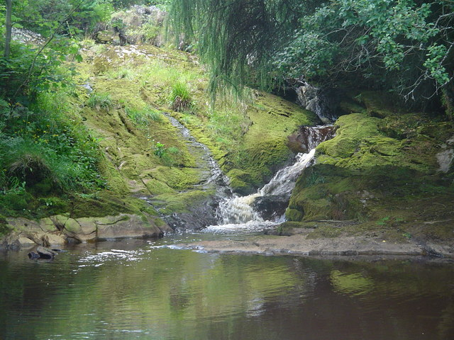 The Glenshesk River Shady pool on the Glenshesk River in Ardagh townland